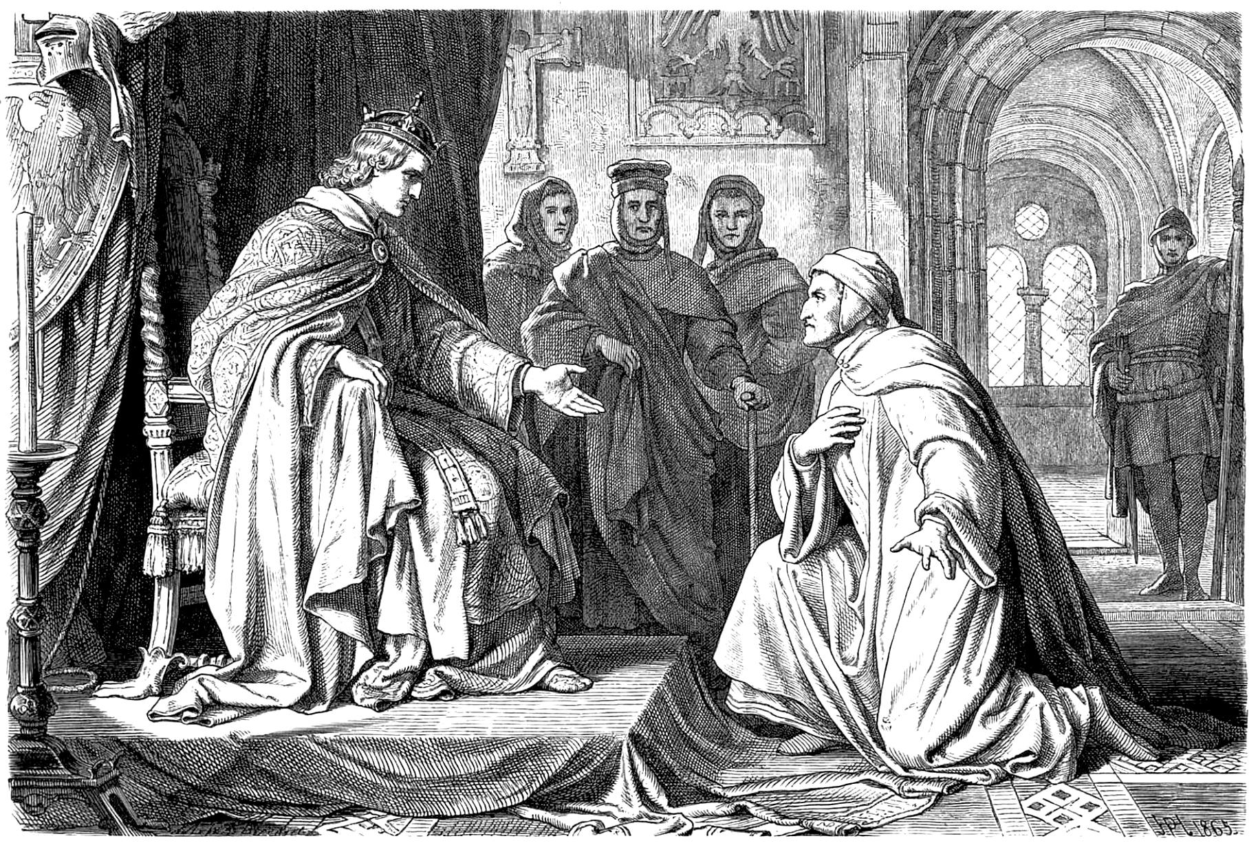 caption: "Dante bittend vor Kaiser Heinrich dem Siebenten.Originalzeichnung von H. Plüddemann."